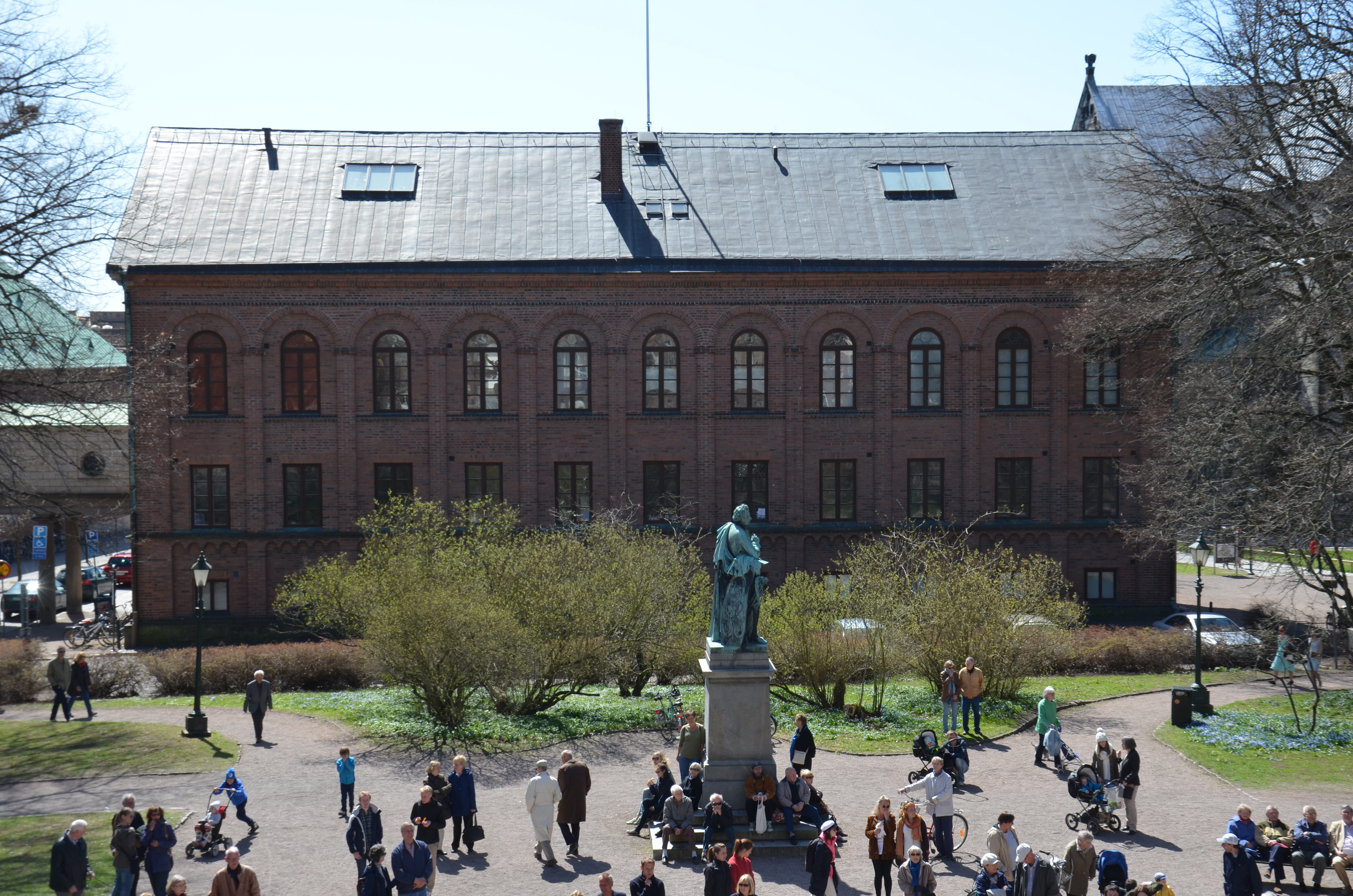 Tegnersplatsenmed Historiska museet i Lund